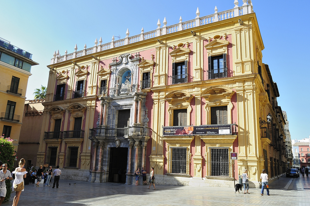 Bishop Palace, Malaga, Spain.